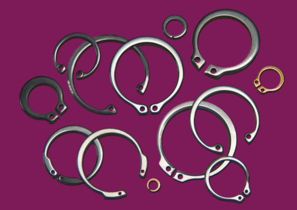 A collection of the most common types of axially installed retaining rings